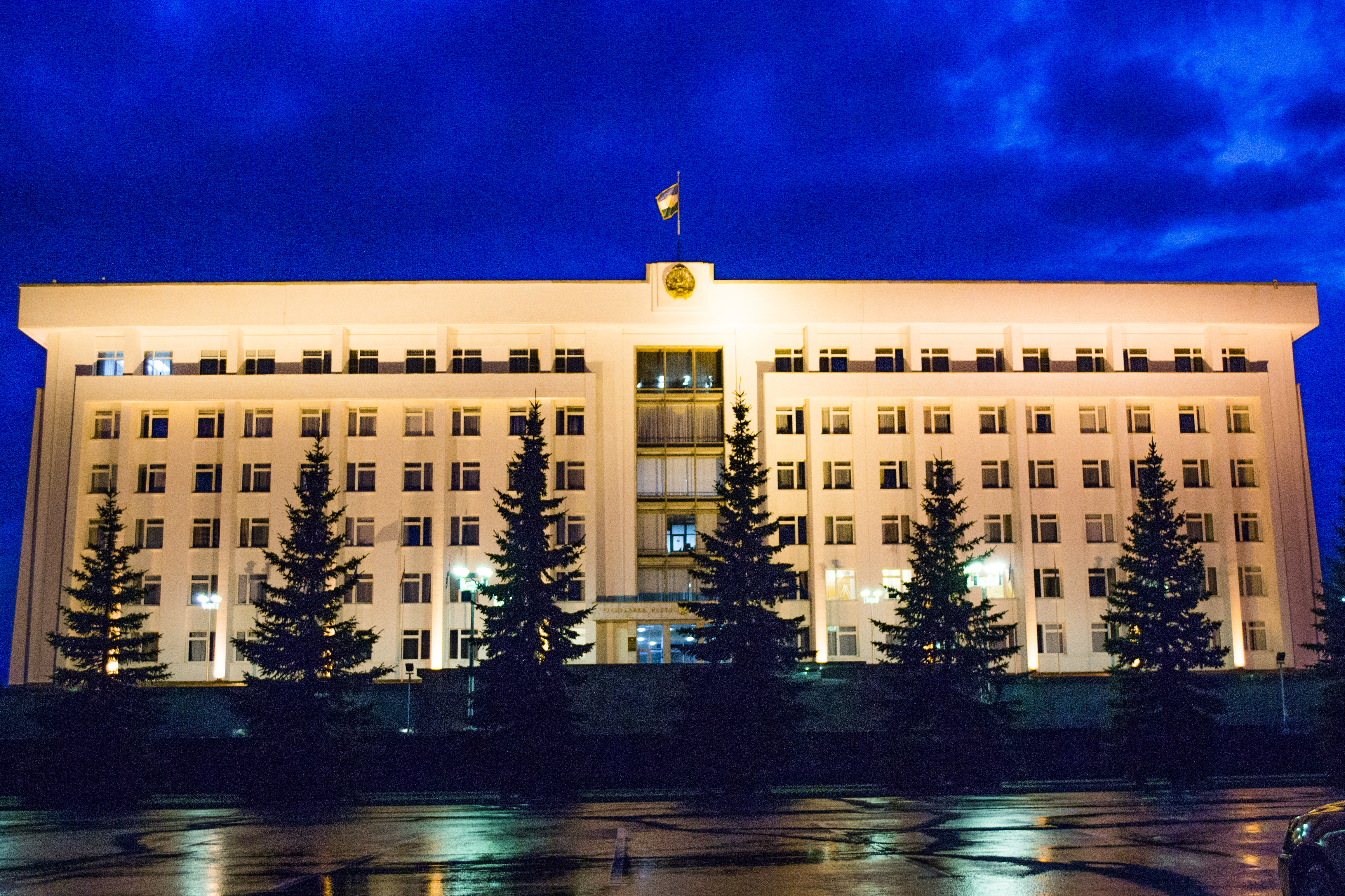 House of Republic.